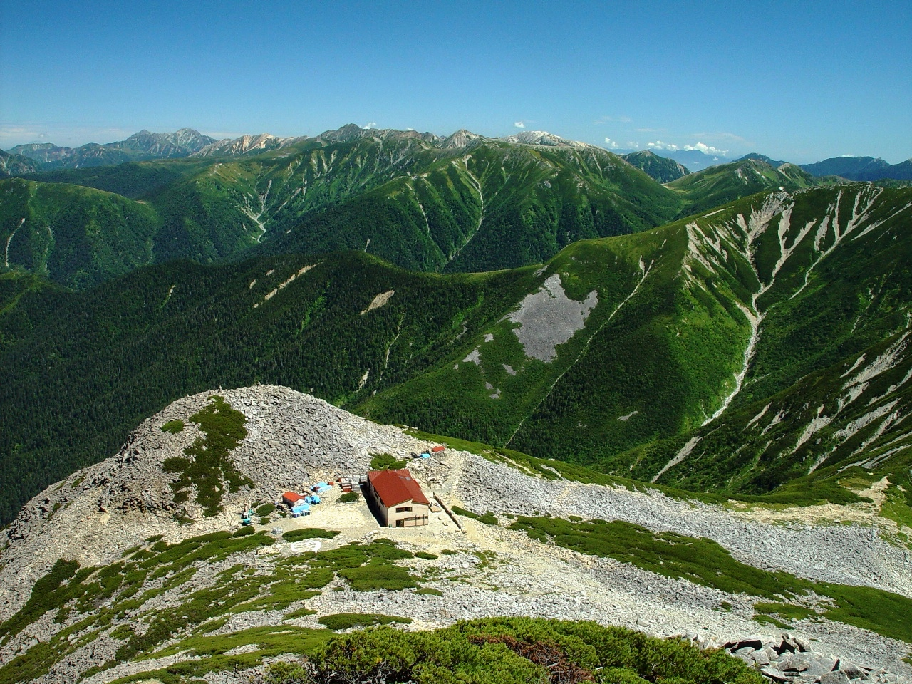 The Hida Mountains, Japan, seen from Mount Kasa